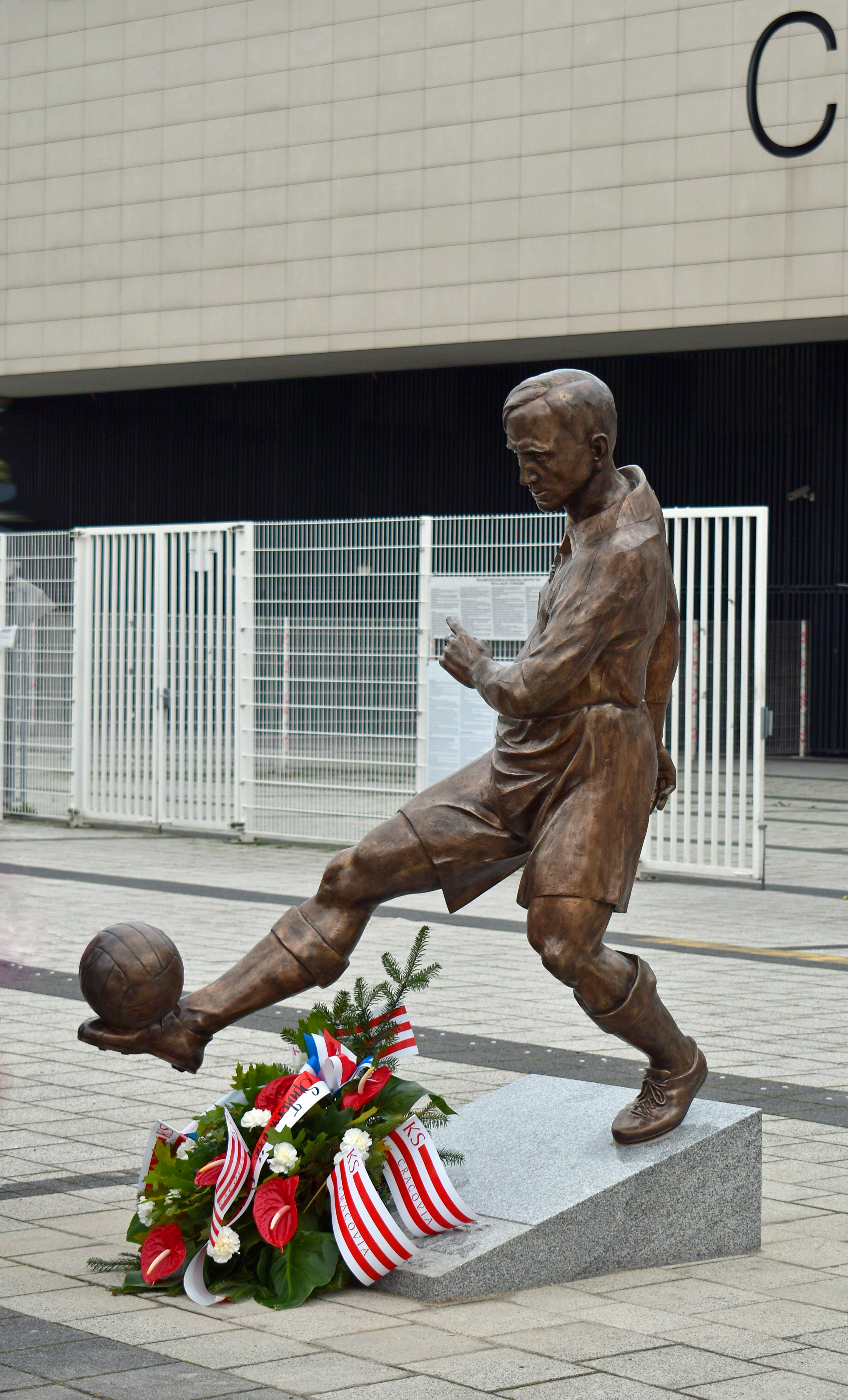 Józef Kałuża (Polish footballer) memorial (designed 2017 by sculptor Czesław Dźwigaj), 1 Kałuży street, Krakow, Poland